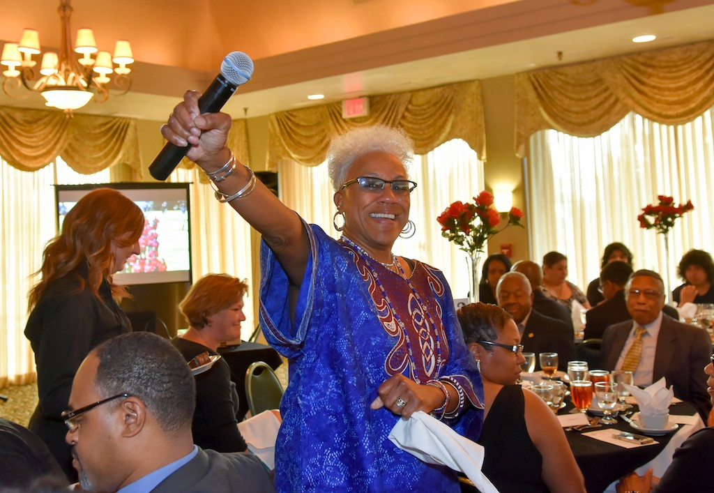 Gaye Adegbalola at Germanna Community College's Gladys P. Todd Academy's celebratory dinner for it's first-year students at the Hospitality House hotel in Fredericksburg, Va. on Thursday evening, June 9, 2016. The Gladys P. Todd Academy is named after Adegbalola's late mother. (Photos by Robert A. Martin)